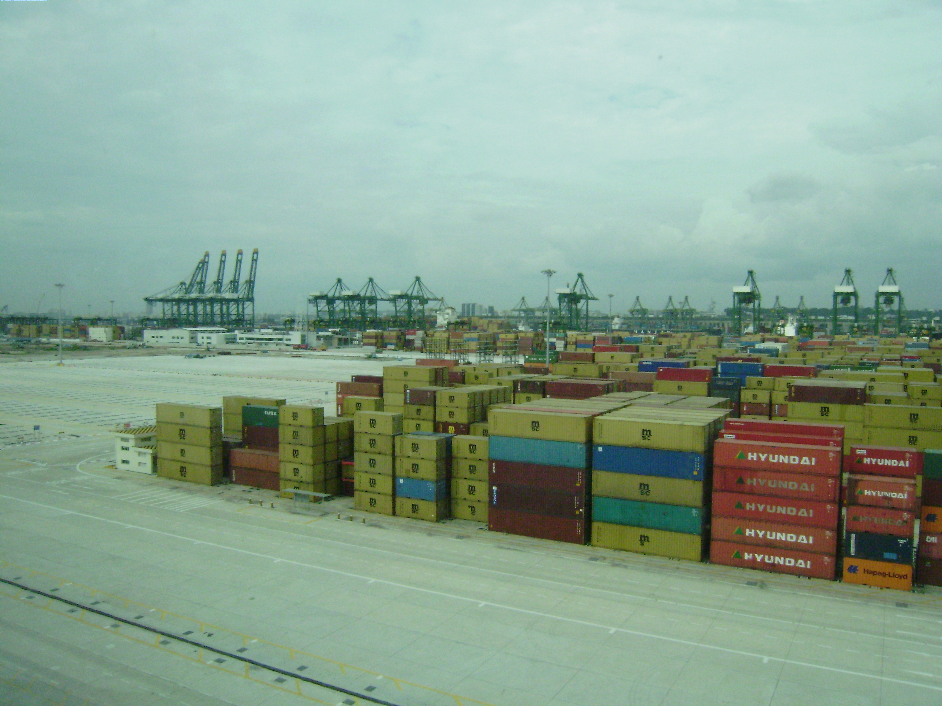 View of the Pasir Panjang Container Terminal, Singapore, from a ship alongside it.